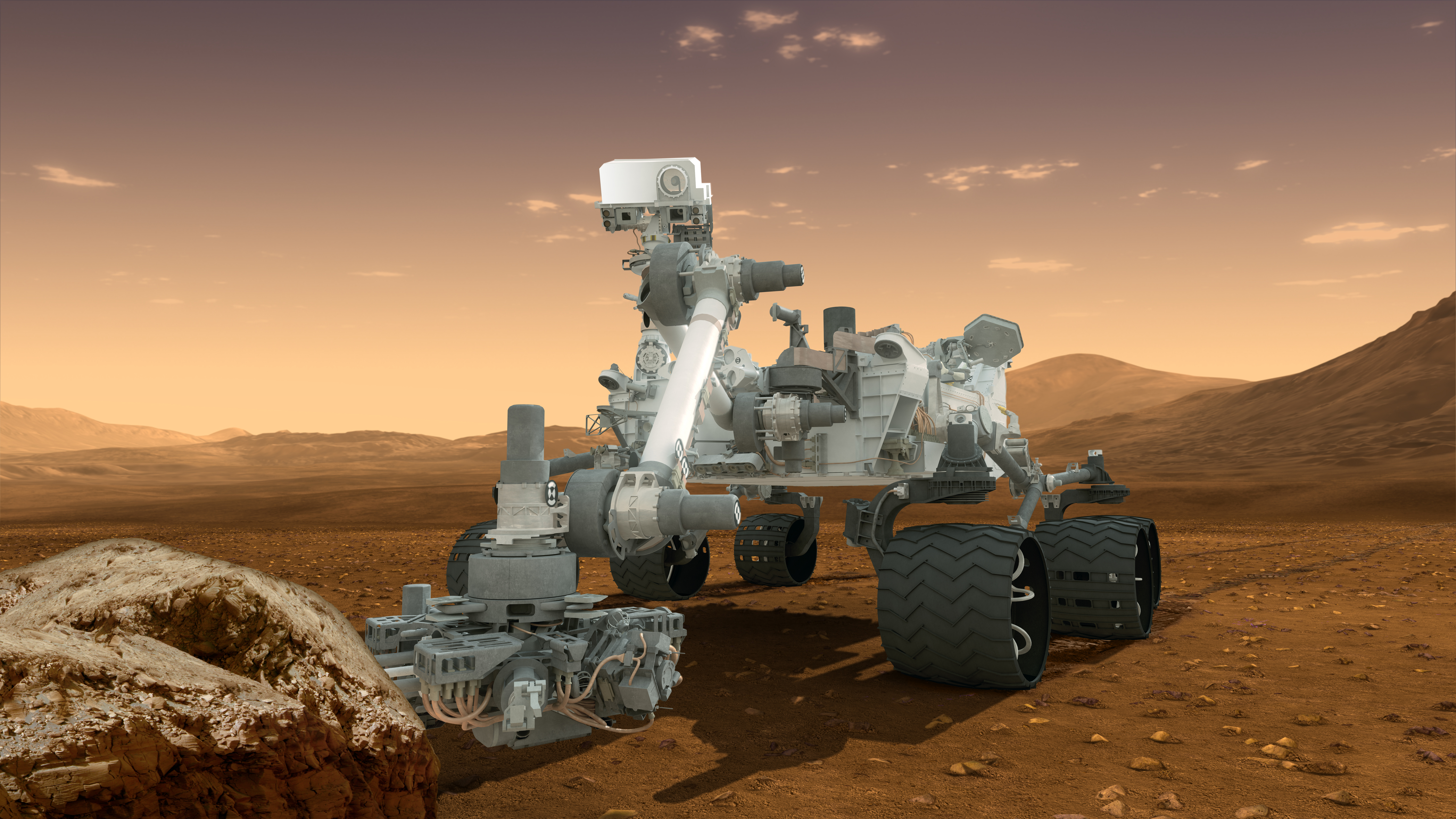 This artist's concept features NASA's Mars Science Laboratory Curiosity rover, a mobile robot for investigating Mars' past or present ability to sustain microbial life. Curiosity landed near the Martian equator about 10:31 p.m., Aug. 5 PDT (1:31 a.m. Aug. 6 EDT) In this picture, the rover examines a rock on Mars with a set of tools at the end of the rover's arm, which extends about 7 feet (2 meters). Two instruments on the arm can study rocks up close. A drill can collect sample material from inside of rocks and a scoop can pick up samples of soil. The arm can sieve the samples and deliver fine powder to instruments inside the rover for thorough analysis. The mast, or rover's "head," rises to about 6.9 feet (2.1 meters) above ground level, about as tall as a basketball player. This mast supports two remote-sensing science instruments: the Mast Camera, or "eyes," for stereo color viewing of surrounding terrain and material collected by the arm; and, the Chemistry and Camera instrument, which uses a laser to vaporize a speck of material on rocks up to about 23 feet (7 meters) away and determines what elements the rocks are made of.